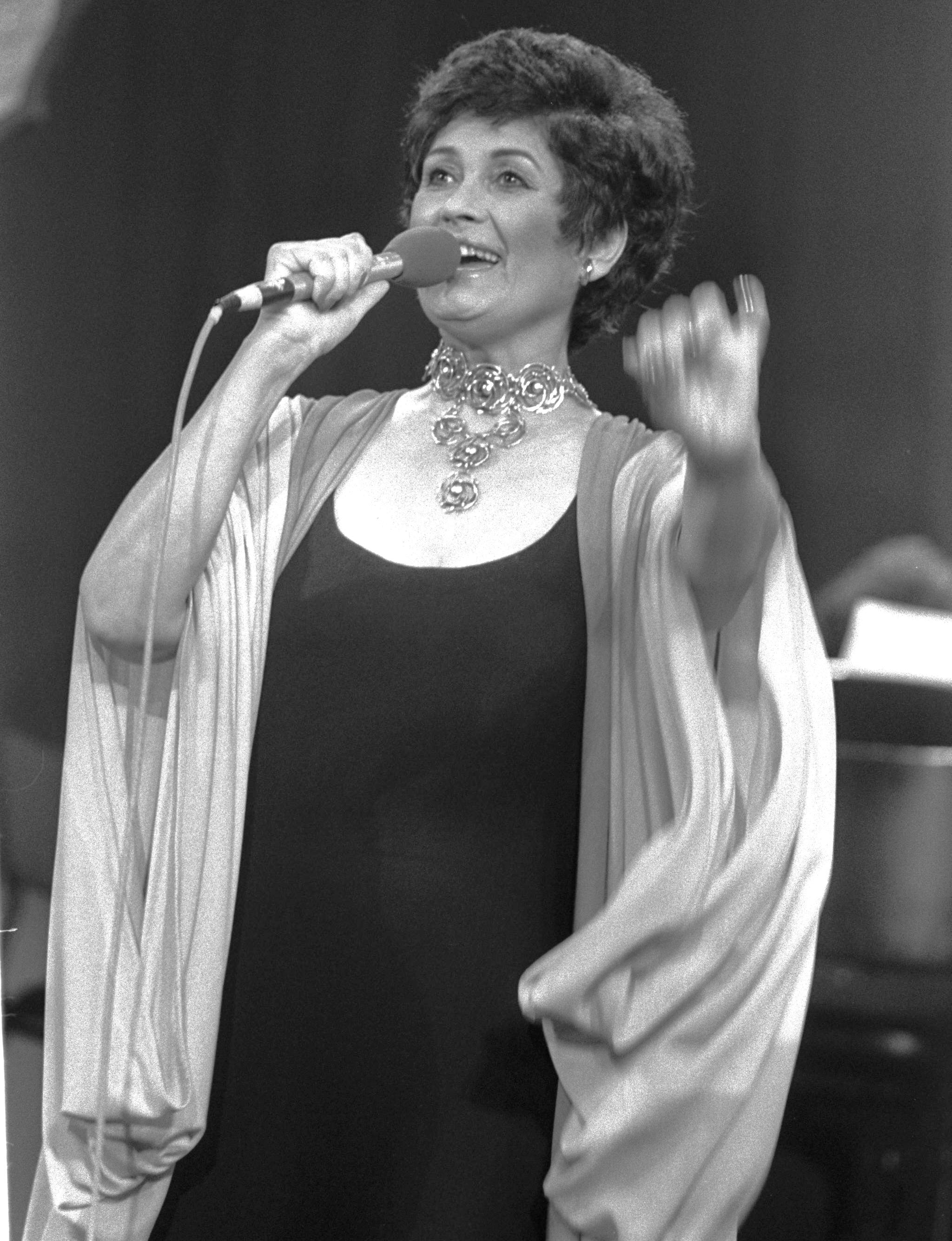 YAFFA YARKONI DURING PERFORMING IN THE TELETROM.